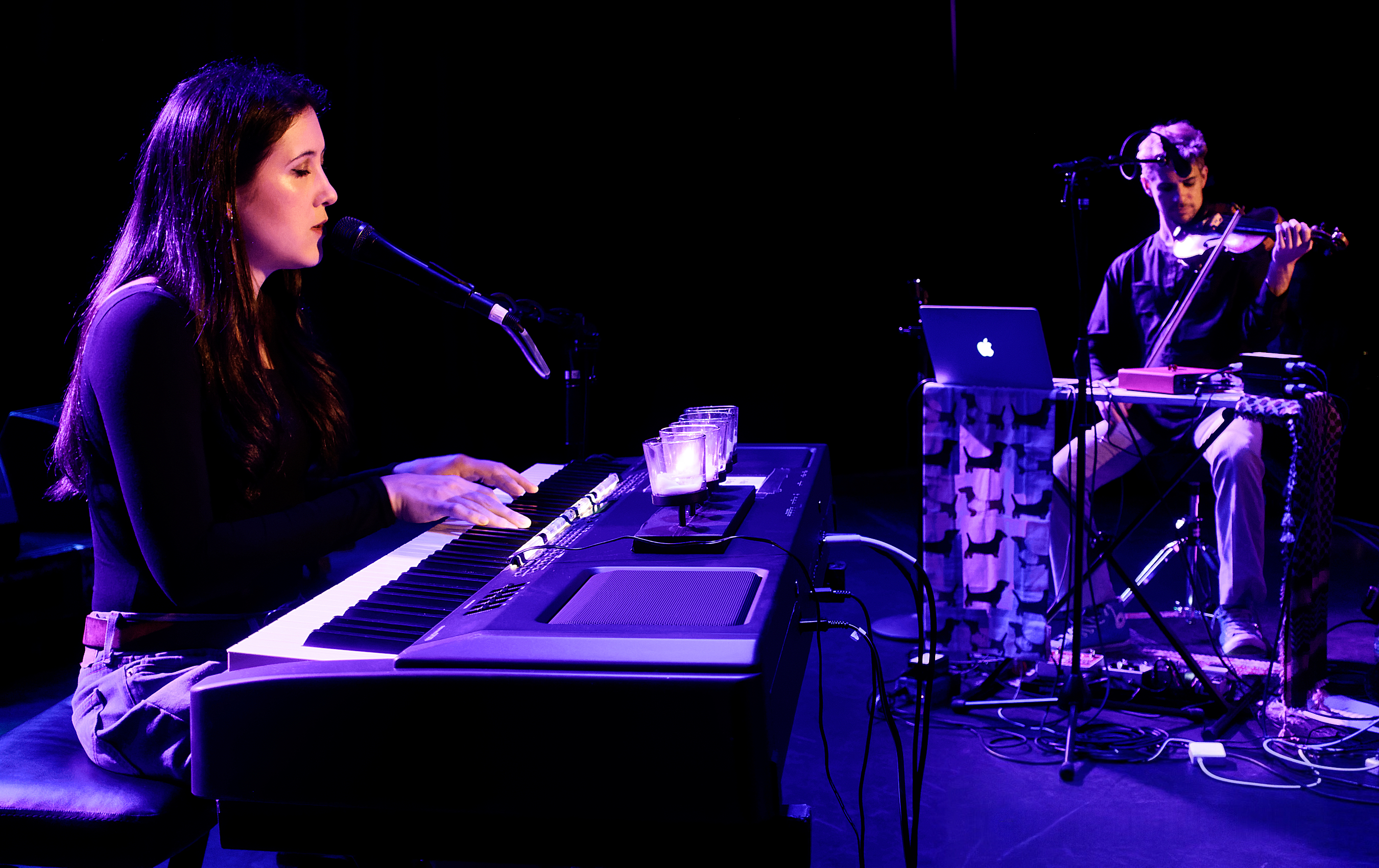 Vanessa Carlton (with Skye Steele) performing live at The Roxy Theatre in West Hollywood (Los Angeles) California on Thursday January 21st, 2016.